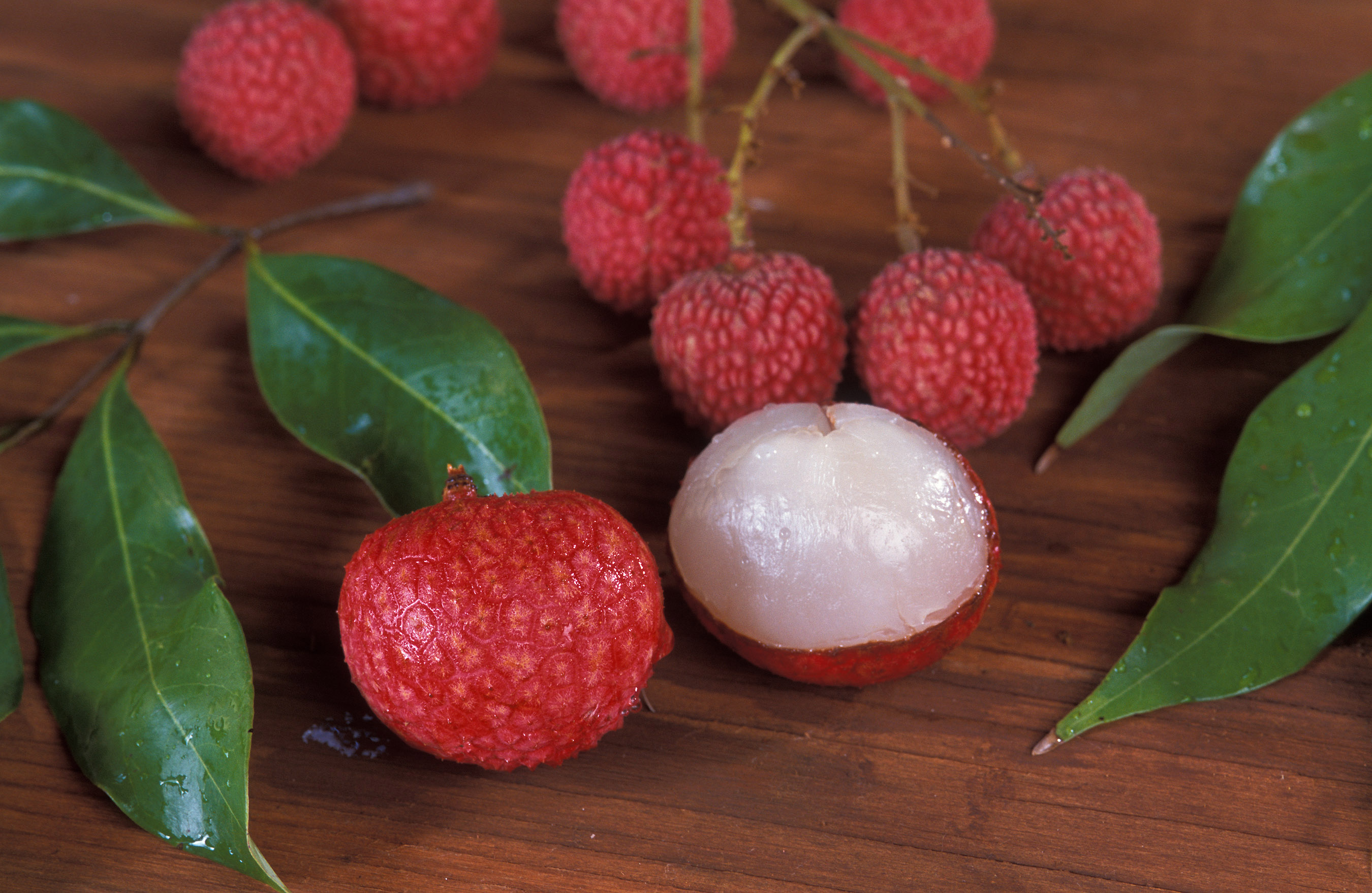 Lychee, Litchi chinensis, was first introduced into Hawaii 100 years ago but has been cultivated in China for nearly 4,000 years. Peeled before eaten, the fruit is whitish colored, as seen on the right.